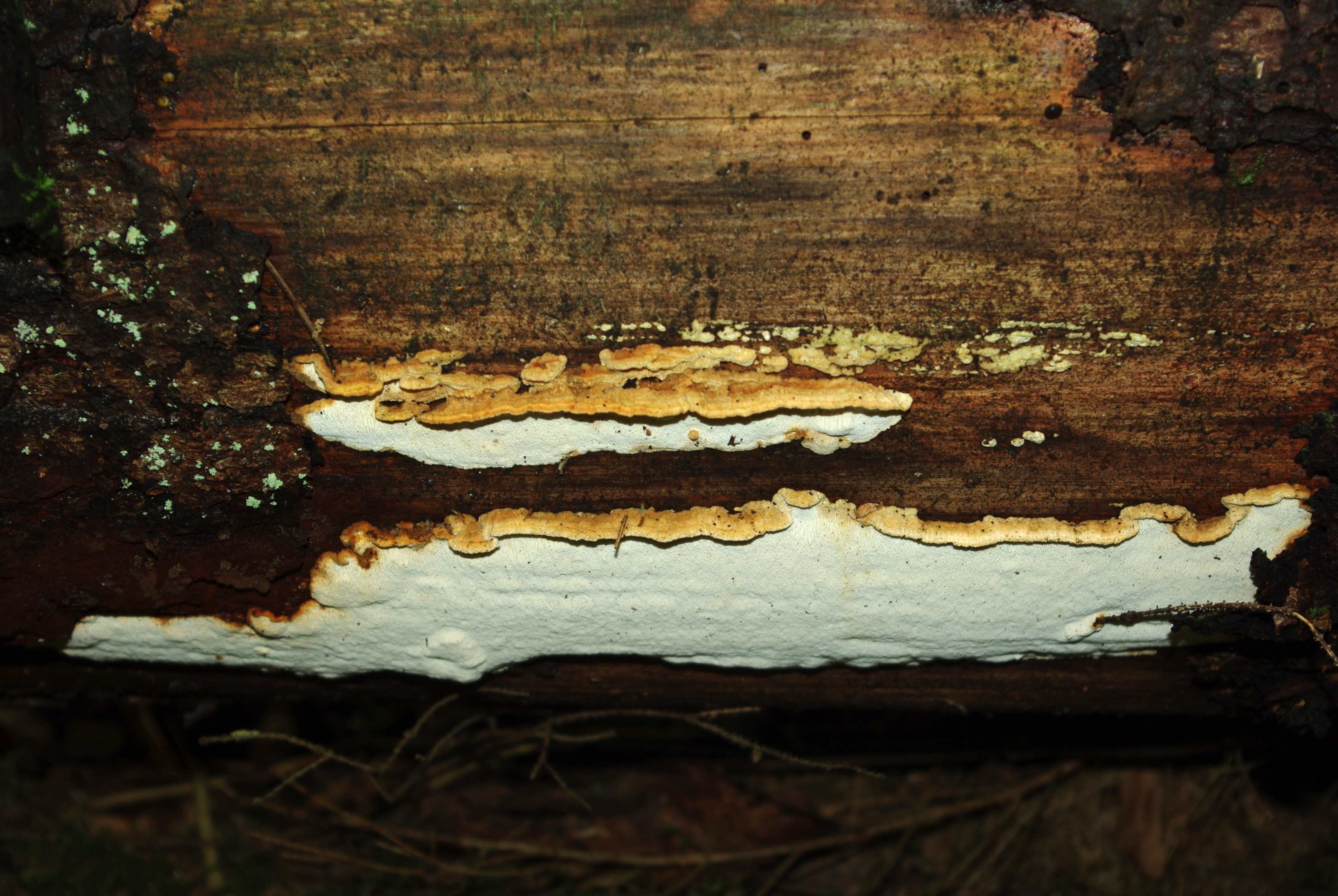 The Polypore fungus (Antrodia serialis) on the Norway spruce (Picea abies)